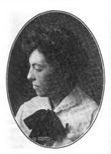 Pauline M. Newman circa 1912